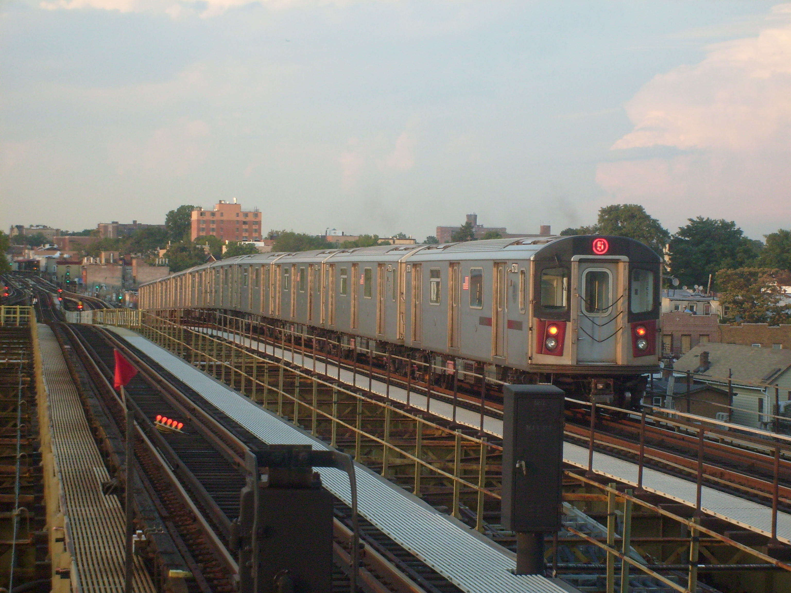 A 5 train leaving Gun Hill Road station, using an R142 train set